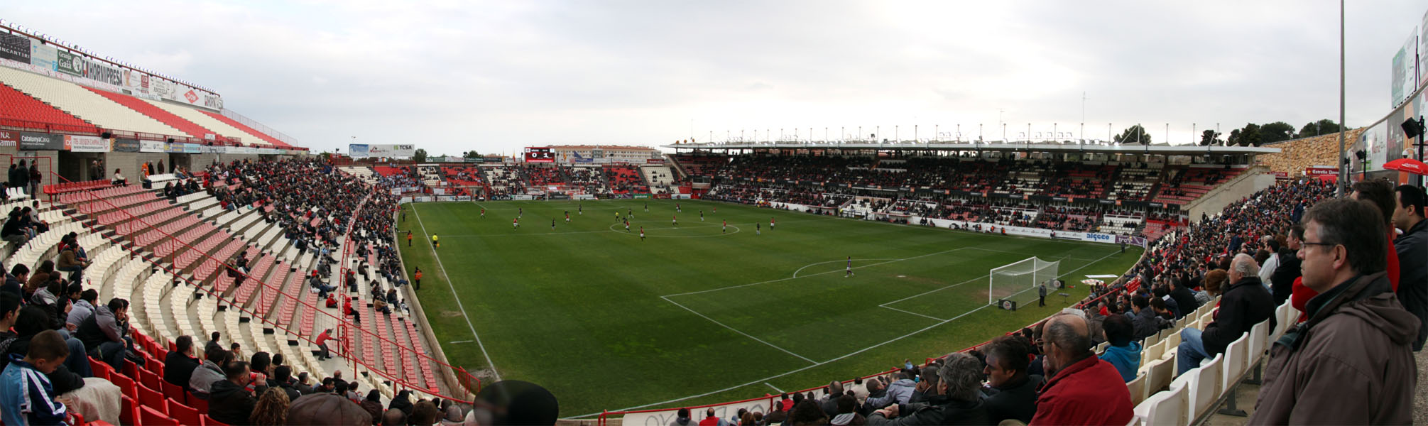 Panorama of Nou Estadi de Tarragona from 26.2.2011, game Gimnastic Tarragona against Celta Vigo